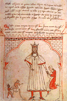 Raimund Berengar I. (Barcelona)